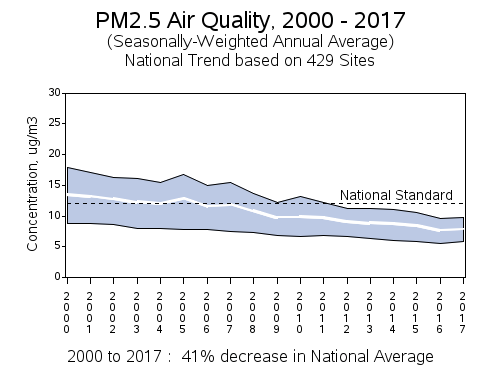 A graph of particulate levels in the atmosphere as determined by the US Environmental Protection Agency